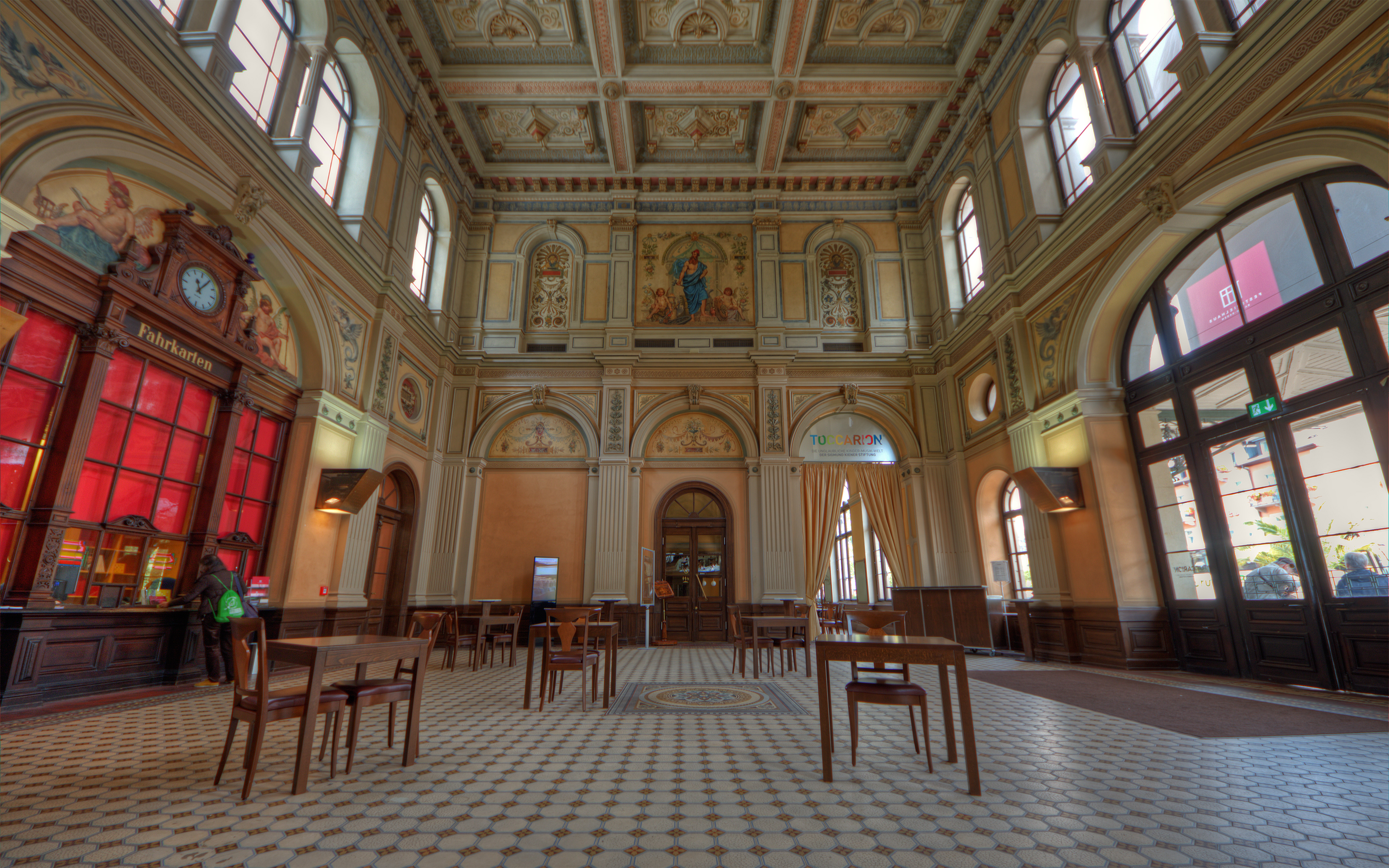 Interior of the old railway station (now part of Festspielhaus) in Baden-Baden (BW, Germany).